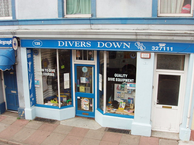 Dive shop, Babbacombe. View from an open top bus.